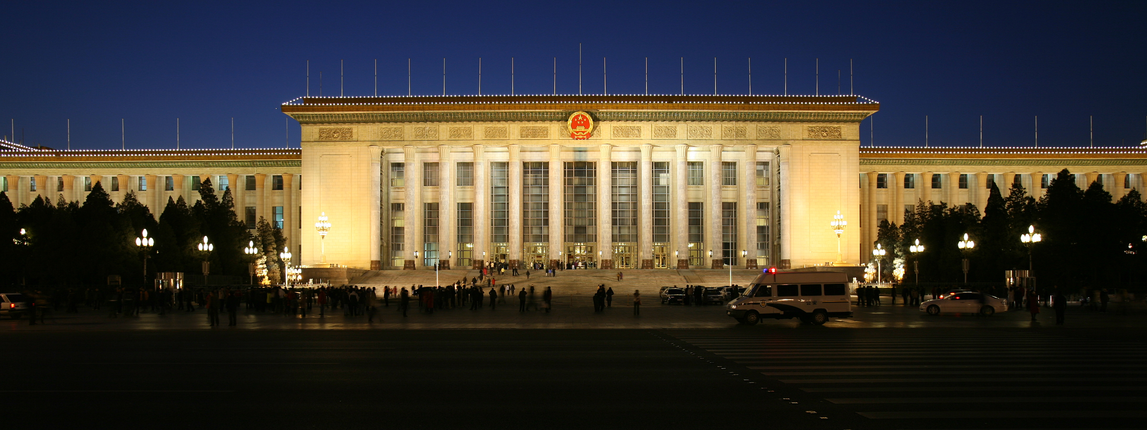 The Great Hall Of The People at night on 02/03/2007